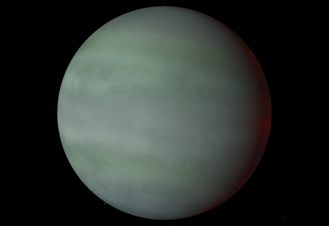 Class V exoplanet in Celestia.